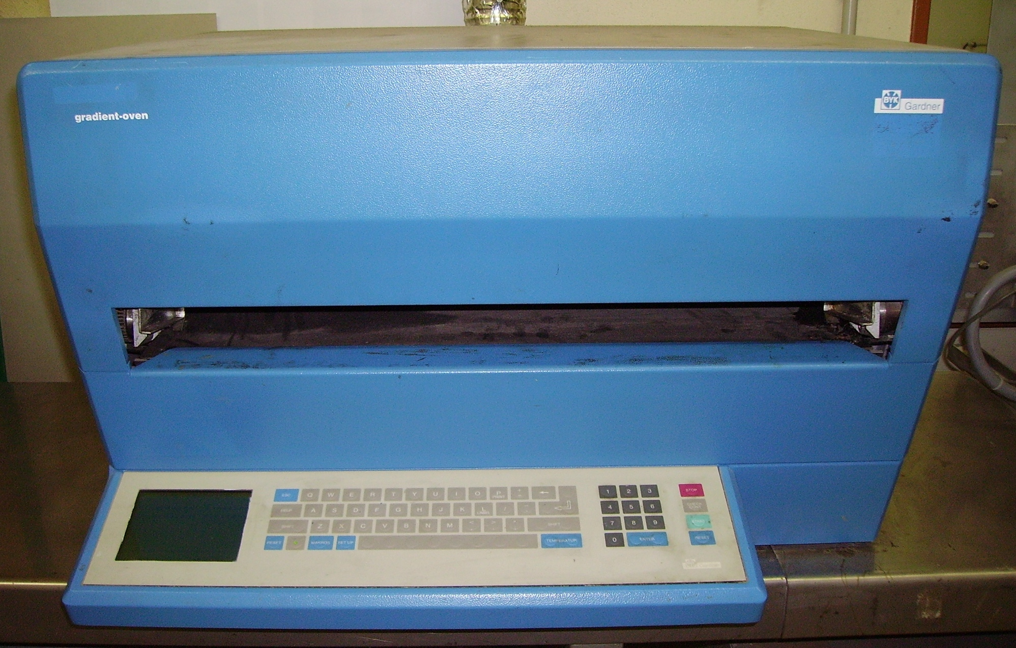 A gradient-oven (BYK Gardner brand) using a heating bank consisting of 45 heating elements, test surface: 70 × 10 mm2. Temperature range: 30 °C to 250 °C.